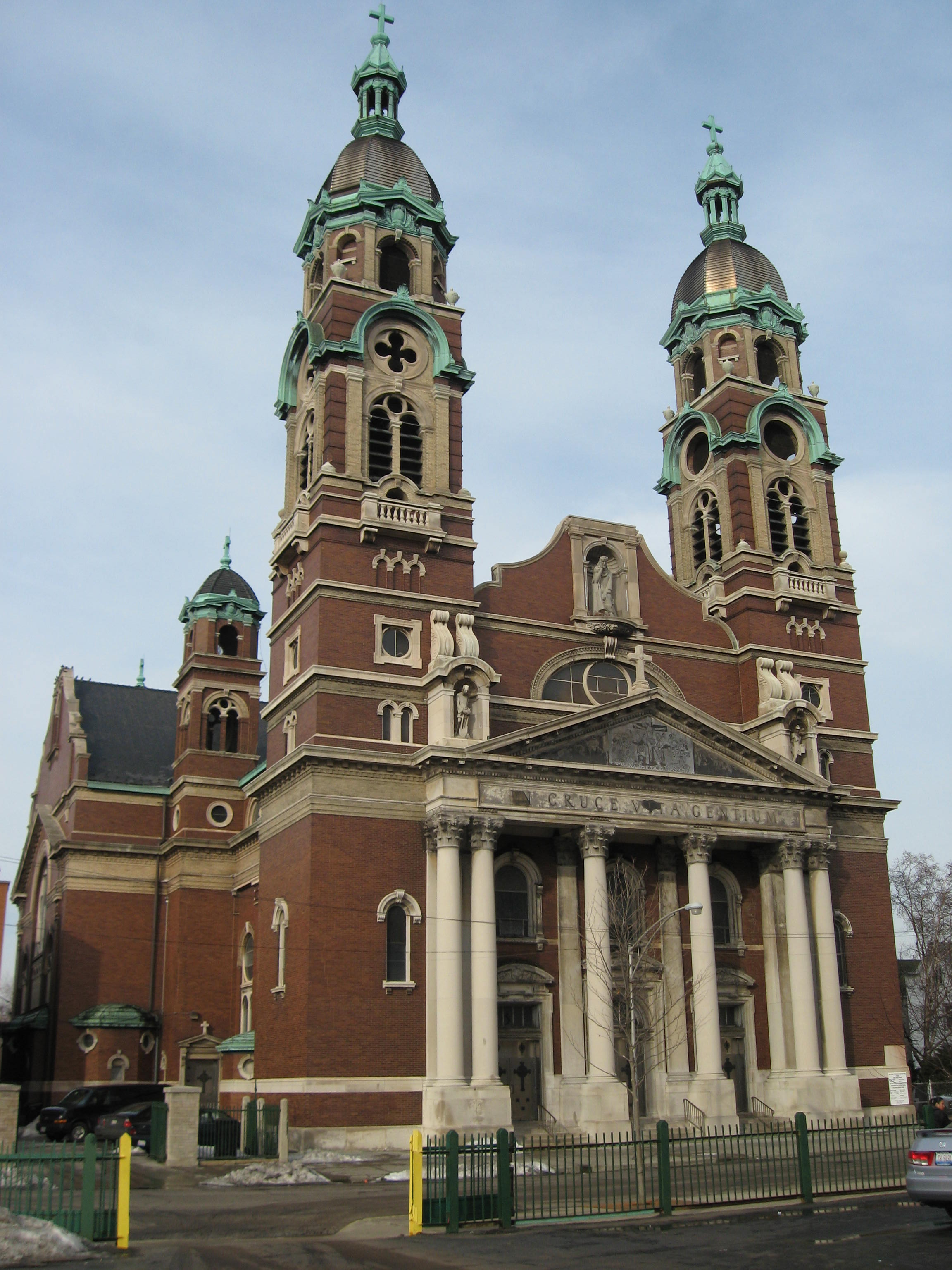 Holy Cross Church, Back of the Yards, Chicago, IL, United States